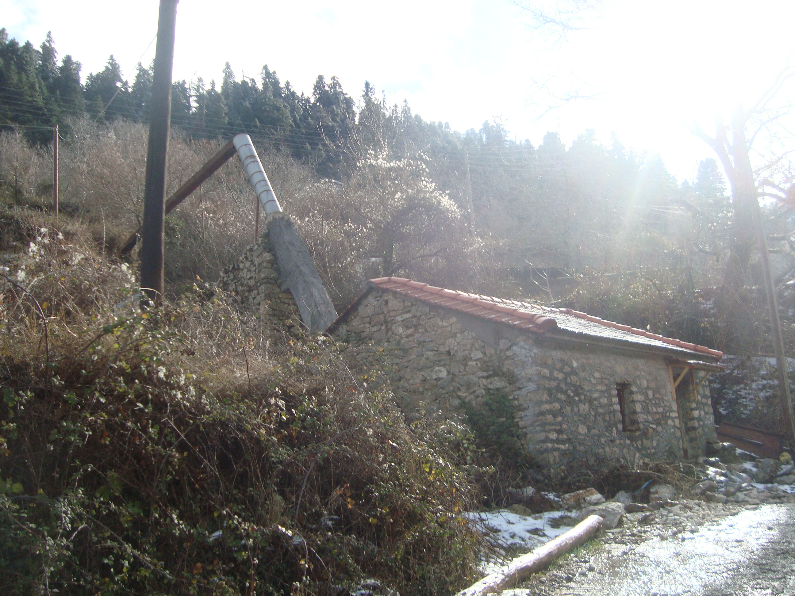 Kryobrysh - Kriobrisi village , Elis, Greece